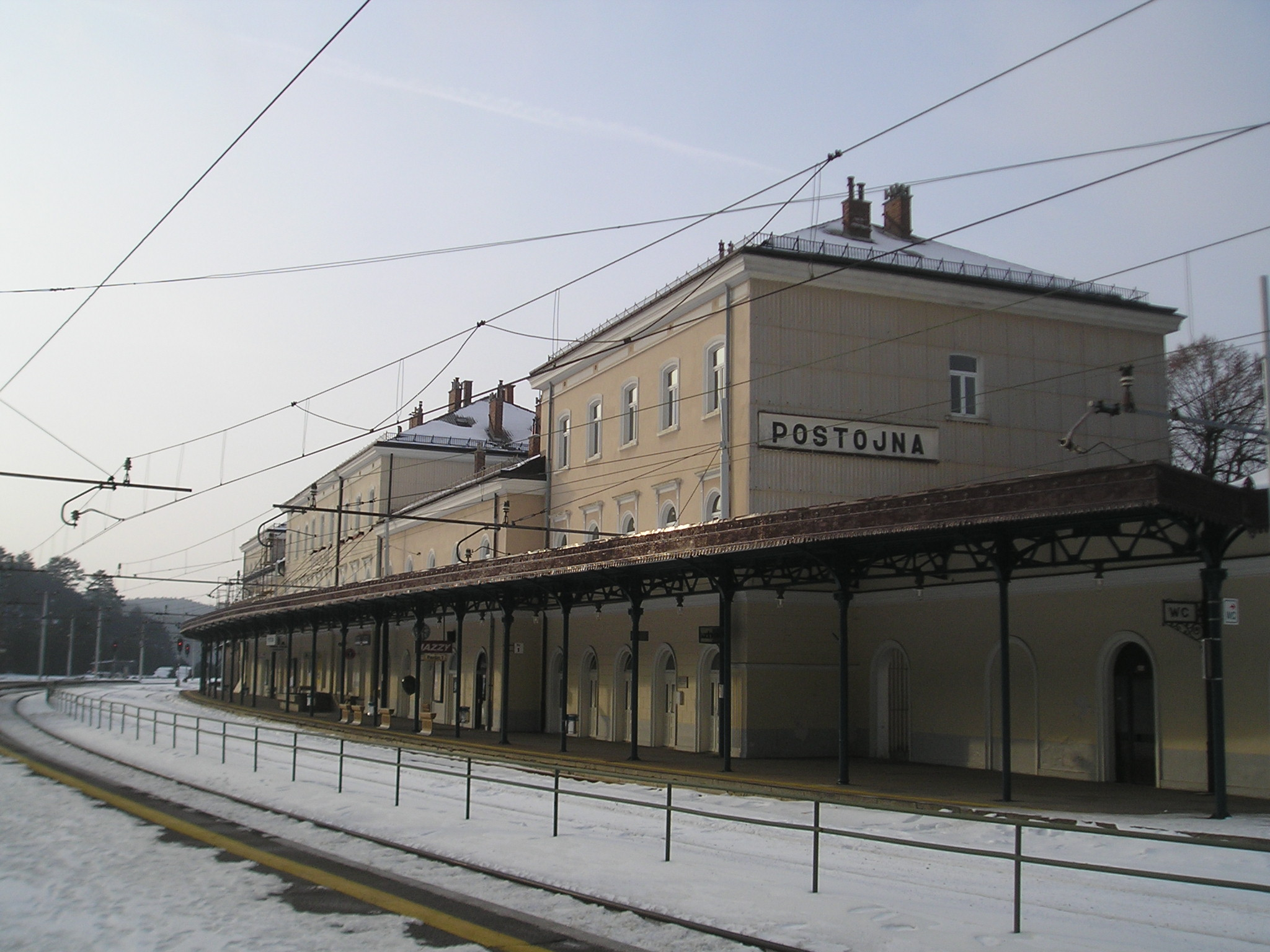 Train station in Postojna, Slovenia